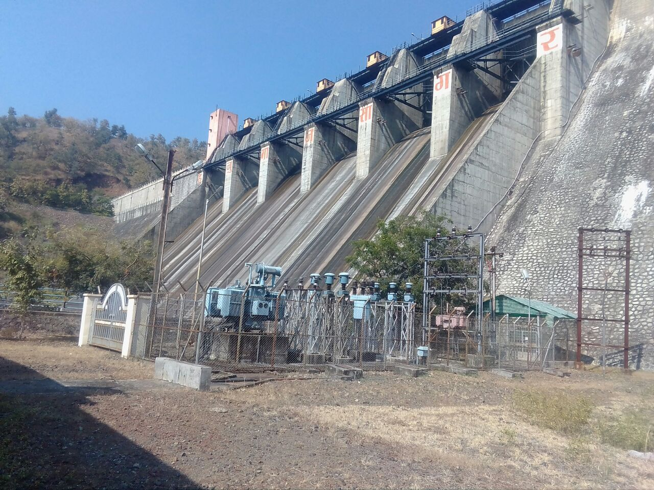 Wan hydro electric project akola assistant engineer electrical maharashtra government akola mpsc